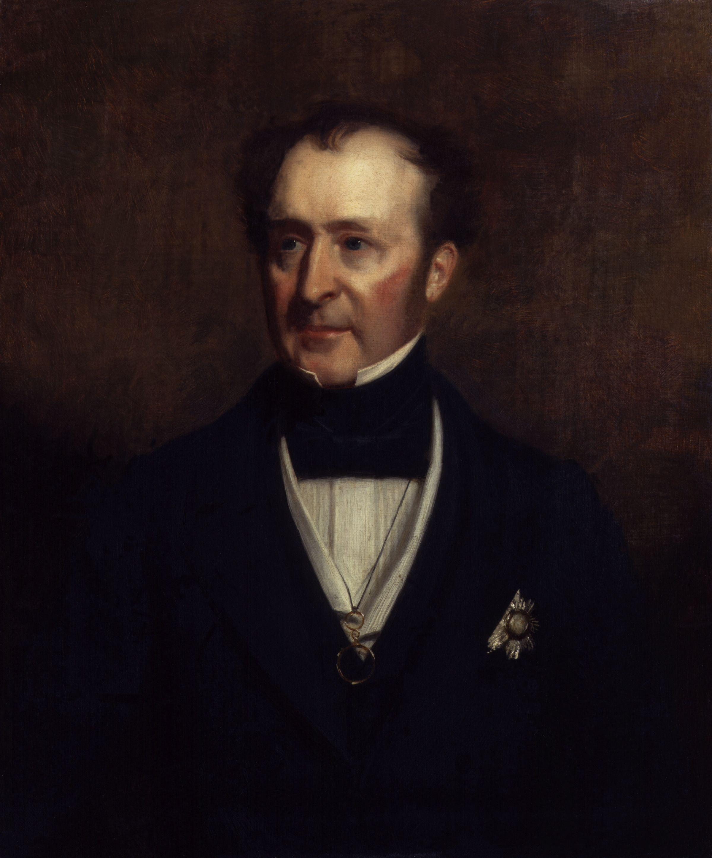 Sir Roderick Impey Murchison, 1st Bt, by Stephen Pearce (died 1904). All images in this batch have been confirmed as author died before 1939 according to the official death date listed by the NPG.